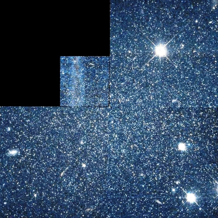 Pegasus Dwarf Spheroidal Galaxy (Peg dSph, Andromeda VI) - Hubble Space Telescope - Hubble Legacy Archive